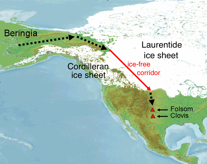 This is an English translation of a map that originally had labels in Spanish.